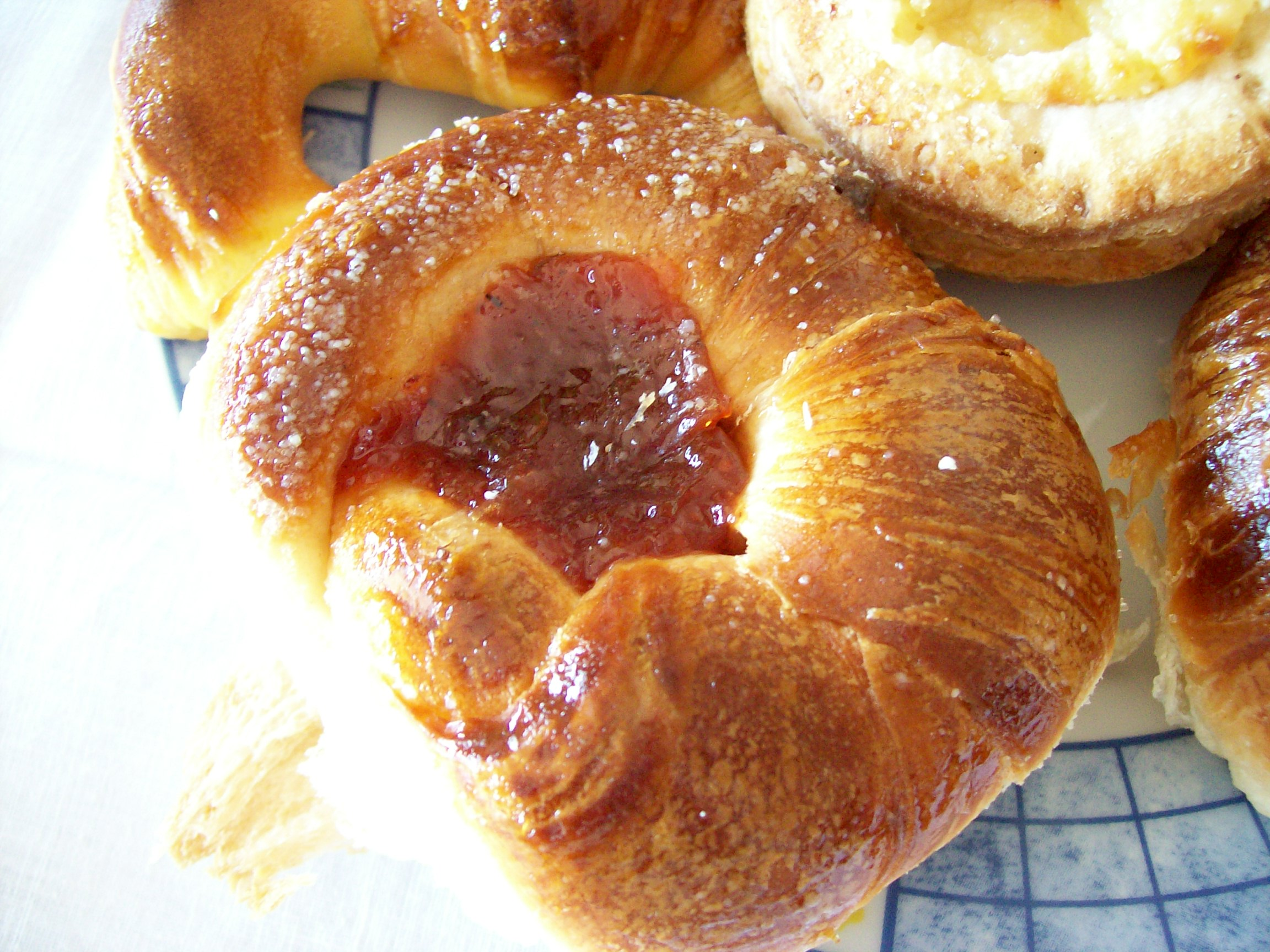 Argentina pastry called "Factura" with quince syrup.